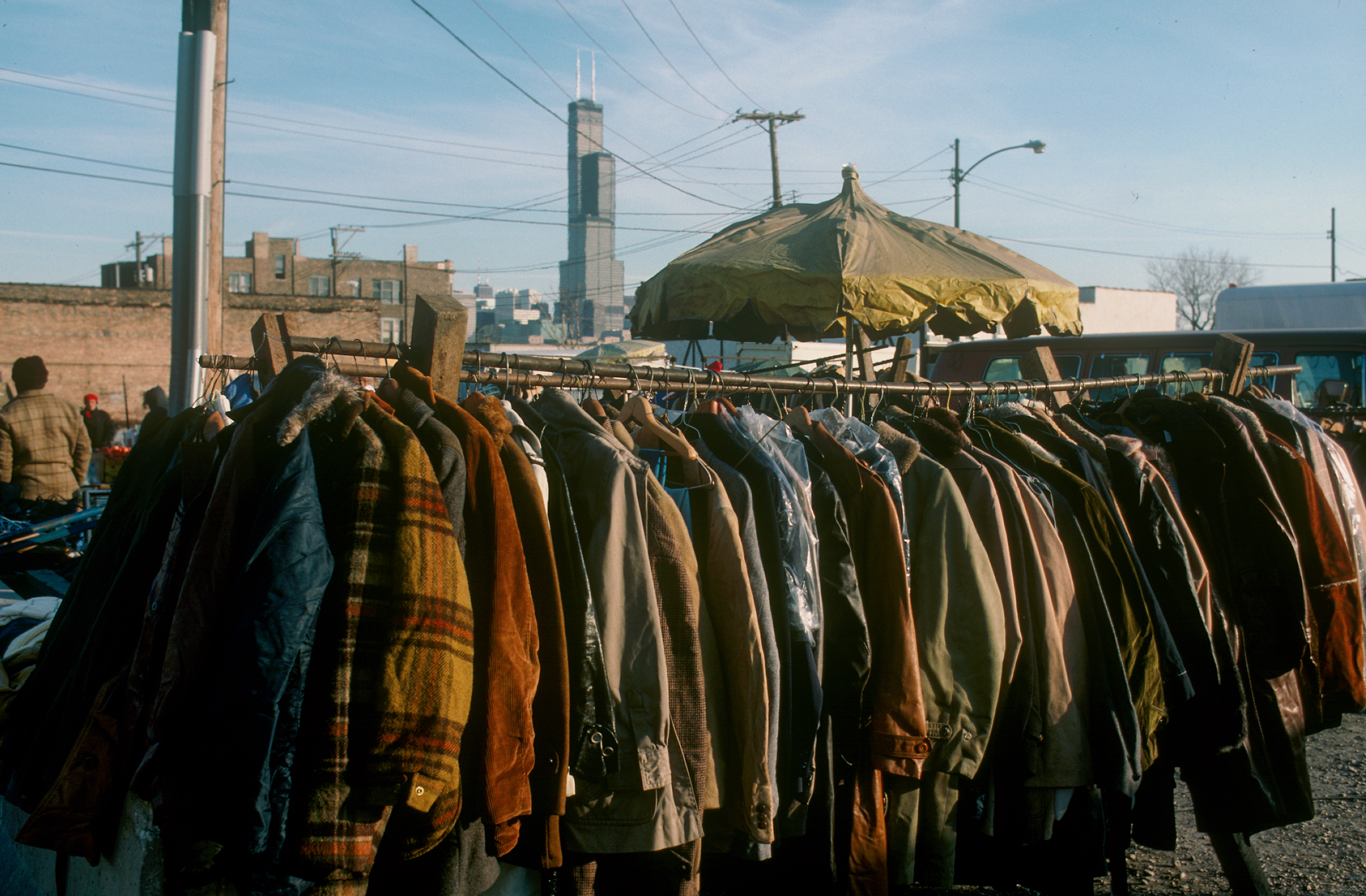 This photograph is part of the extended photographic essay "Chicago in the Reagan Era" by Jeff Wassmann.